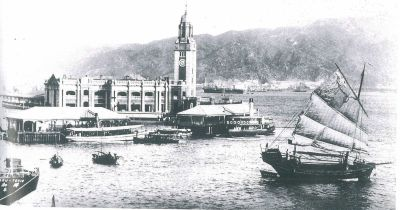 Star Ferry Pier and Kowloon Station (KCR) in Tsim Sha Tsui, Hong Kong.